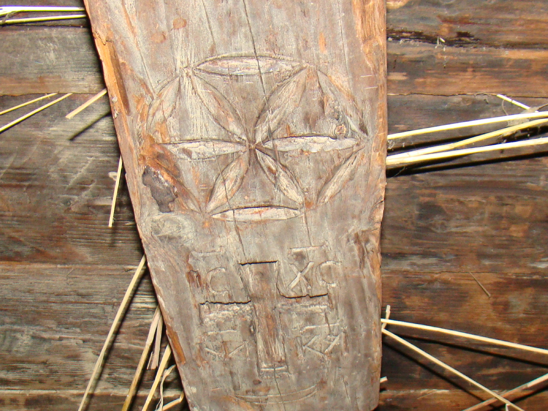 Wooden ceiling beam displayed at the Rural Architecture Museum of Sanok (Sanok, Poland). Part of the "Log cabin from Dąbrówka" (built 1681).[1] Incised in the beam are a cross with Christogram, and a six-petal rosette. [verification needed: the hexagonal pattern was supposed to protect the house from lightning strikes]